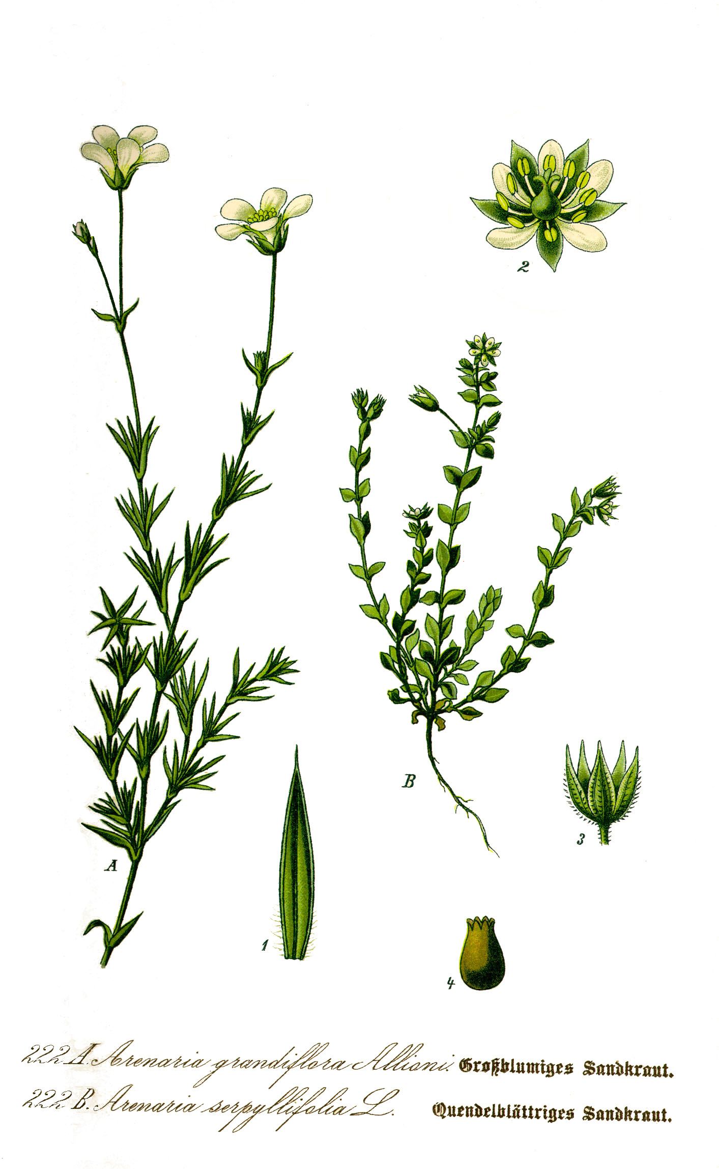 Name Arenaria serpyllifolia Family Caryophyllaceae clean from